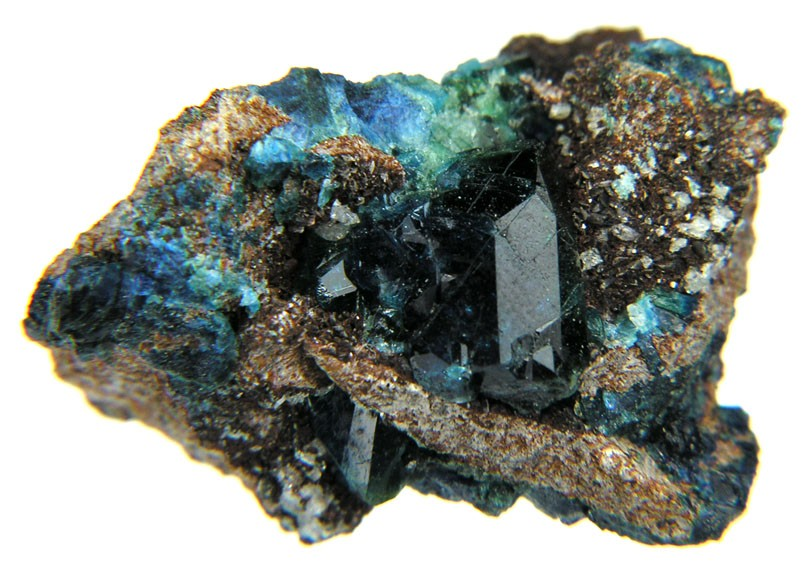 Lazulite Locality: Rapid Creek, Dawson Mining District, Yukon Territory, Canada (Locality at ) Size: 3.4 x 2.9 x 2.2 cm. Lazulite is a rare magnesium aluminum phosphate, and some of the finest, highly sought after, and best known specimens of this material come from this locality. The area around Rapid Creek is only accessible for a few months in the summer for collecting (it’s under snow and ice the rest of the year), and is some of the most treacherous terrain in the world for collecting specimens. This specimen is a beautiful display piece featuring superb quality, sharp, highly lustrous, very well formed, monoclinic, deep inky blue color crystals of Lazulite measuring up to 11 mm on matrix. This specimen was collected 3 years ago, when there was a great boom of spectacular Lazulite specimens.